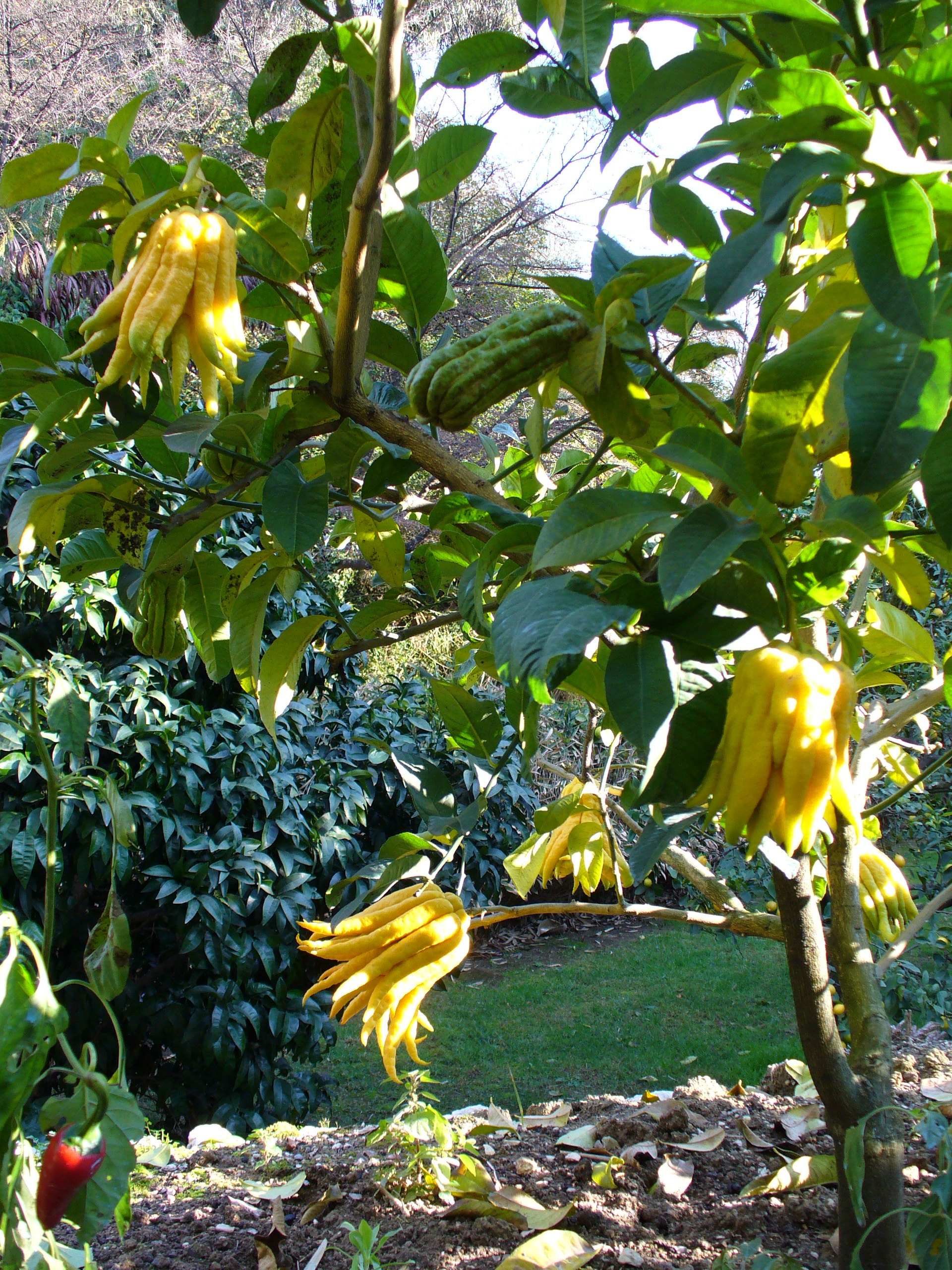 Citrus medica digitata in Val Rahmeh botanical garden, Menton, France